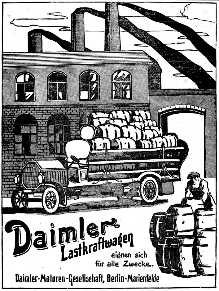 Newspaper ad for Daimler lorries by the Daimler-Motoren-Gesellschaft, published in the 3 Sept. 1913 morning edition of the Kölnische Zeitung.